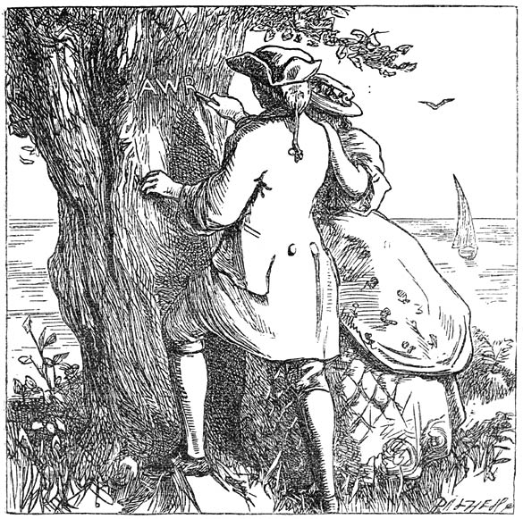 From 'Andersens Sproken en vertellingen' by Hans Christian Andersen, Titia van der Tuuk (ed.) and Simon Jacob Andriessen (trans.). Gebroeders E. & M. Cohen, Nijmegen - Arnhem. Illustrated by Alfred Walter Bayes (1832-1909) and engraved by the Dalziel Brothers (Edward Daziel, 1817-1905; George Daziel, 1815-1902).